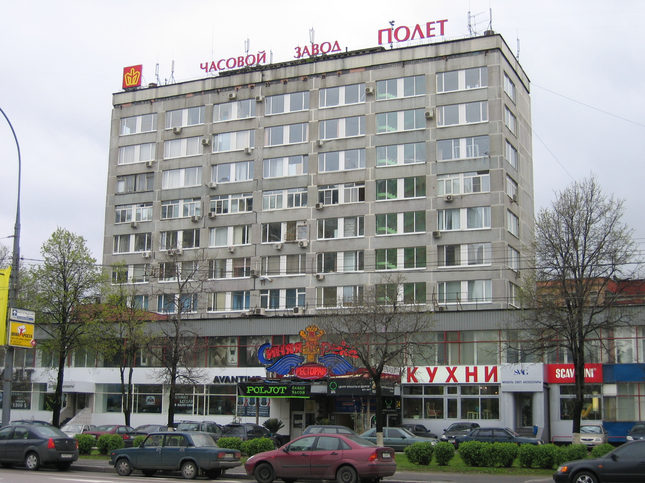 Polyot clock factory, Moscow